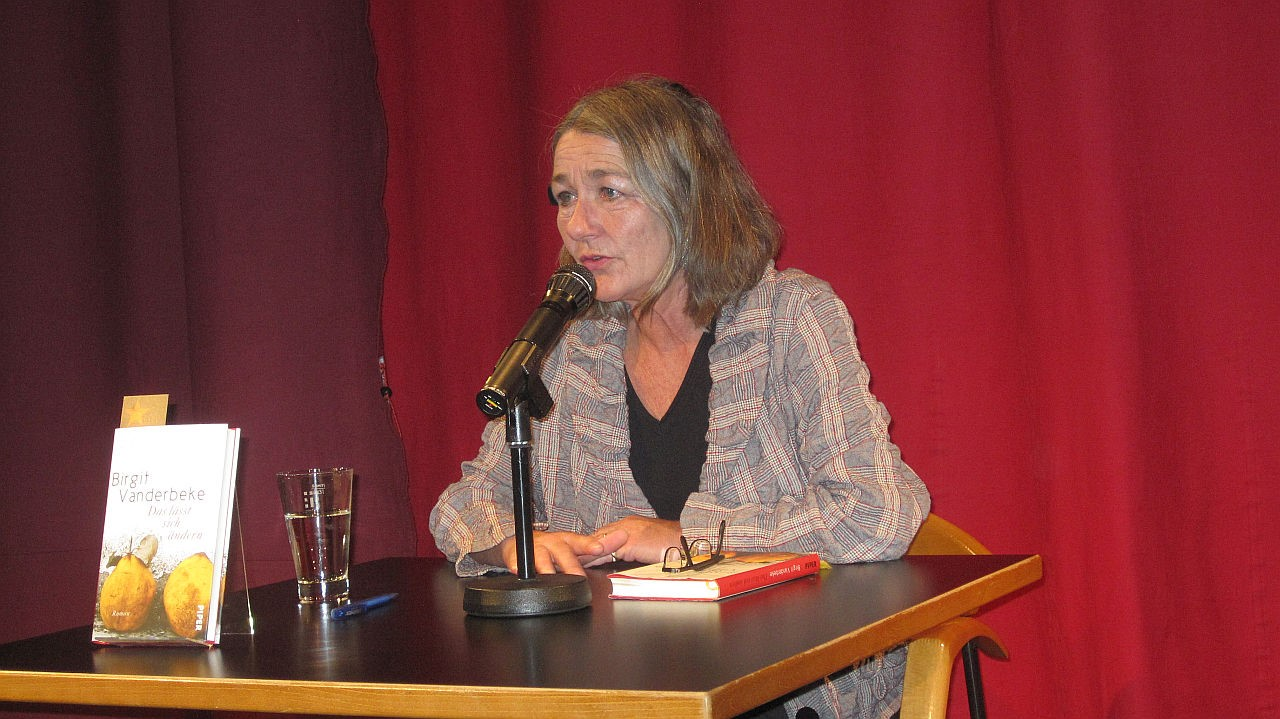 German writer Birgit Vanderbeke, 2011